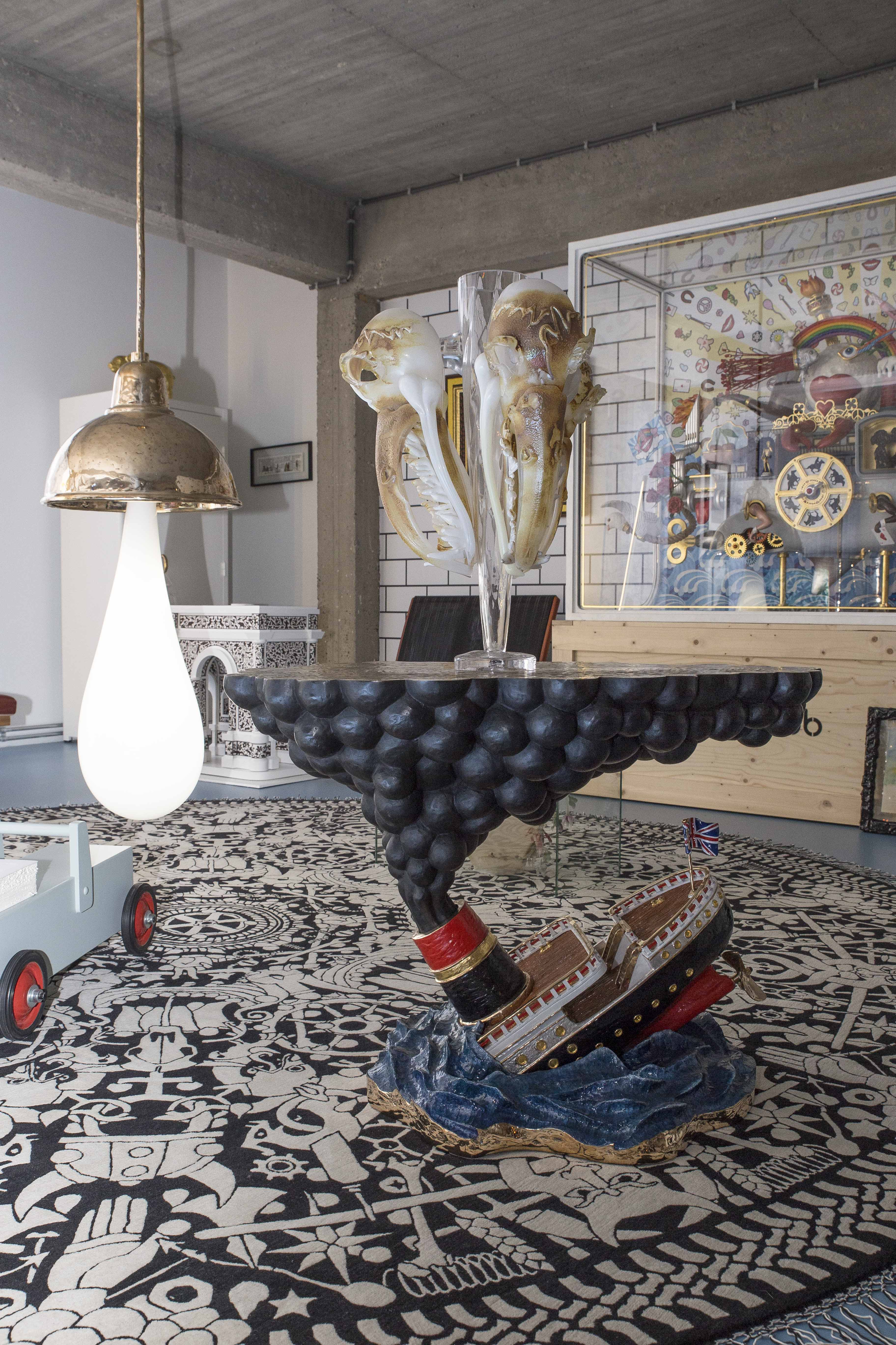 Living room of the Studio Job Headquarters, 2018 featuring the Sinking Shop table, Wonderlamp, Nodus Rug and Barneys Love Boat